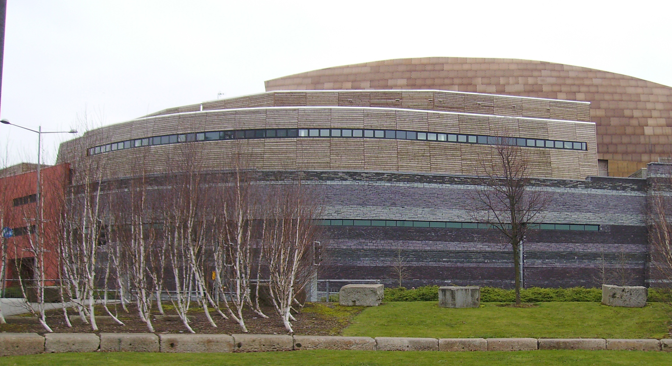 Hoddinott Hall, Wales Millennium Centre, Cardiff Bay, Cardiff, Wales